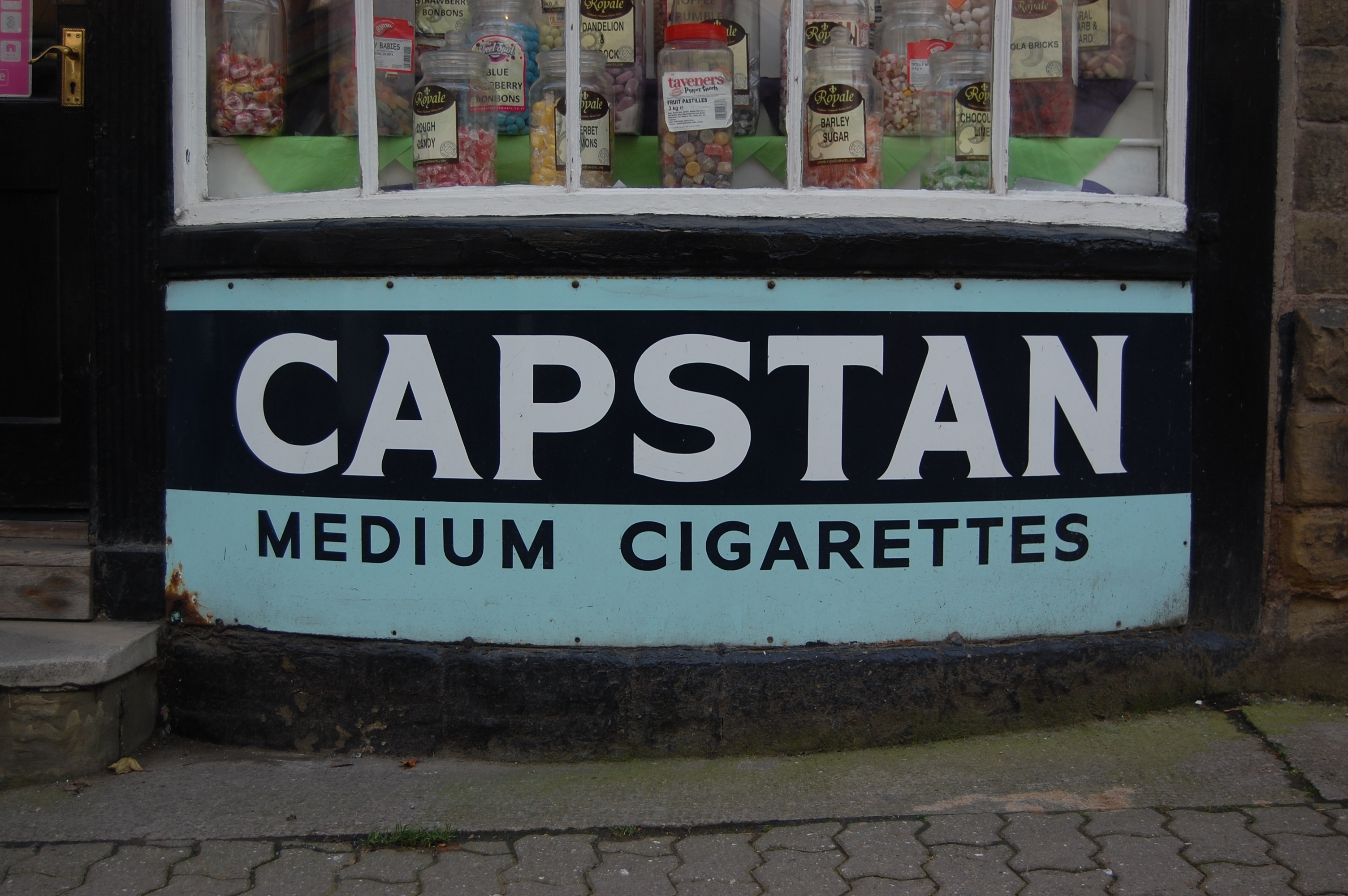 Curved "Capstan Medium Cigarettes" enamel advertising sign under the bay window of a shop in Kington, Herefordshire, England.